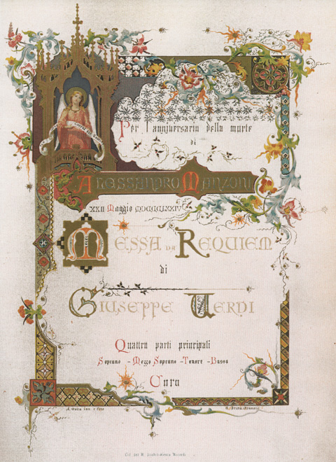 Title page of Giuseppe Verdi's Messa da Requiem; first edition (1874), Casa Ricordi